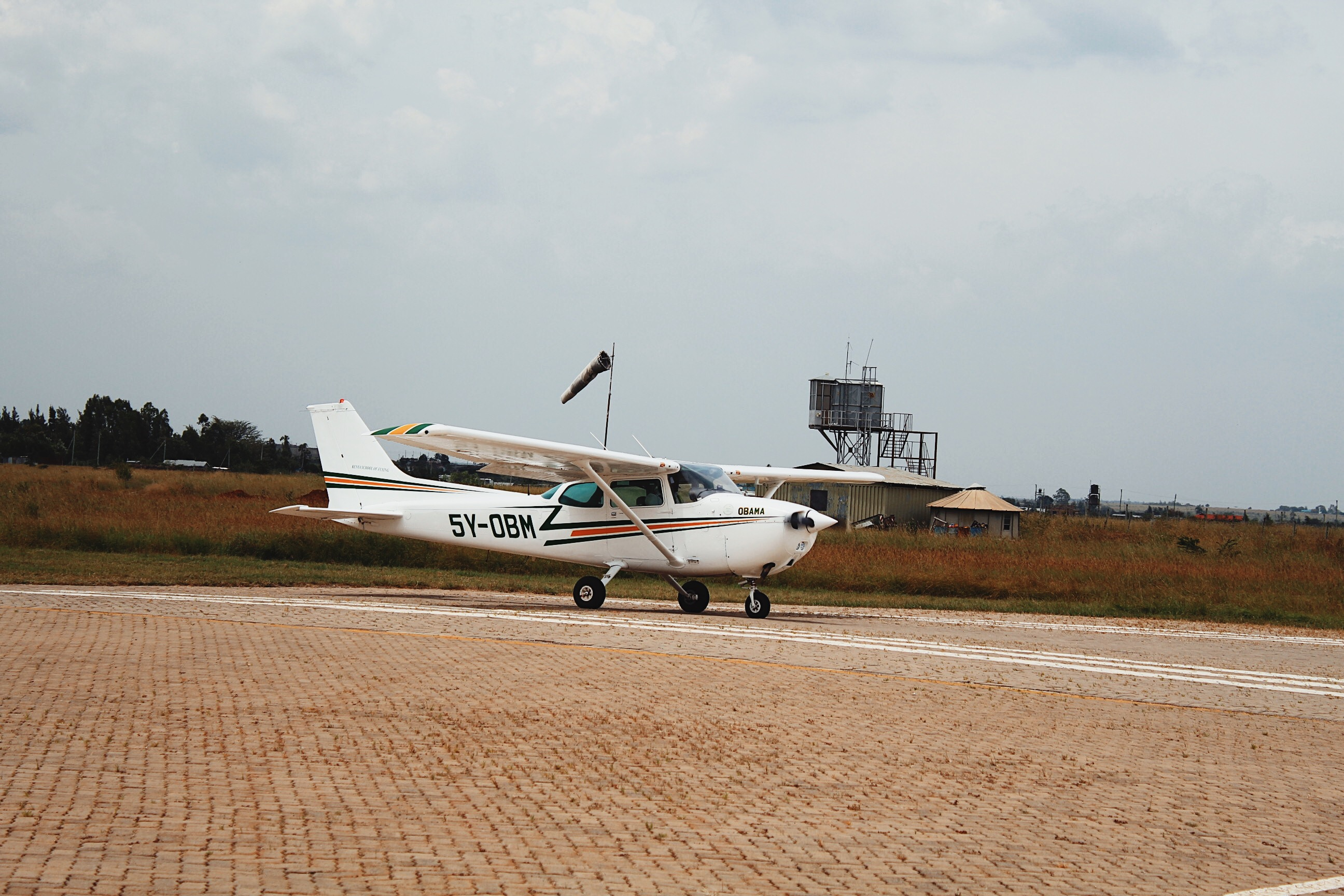 Aircrafts at Orly Airpark Kenya This is an image with the theme "Africa on the Move or Transport" from: Kenya